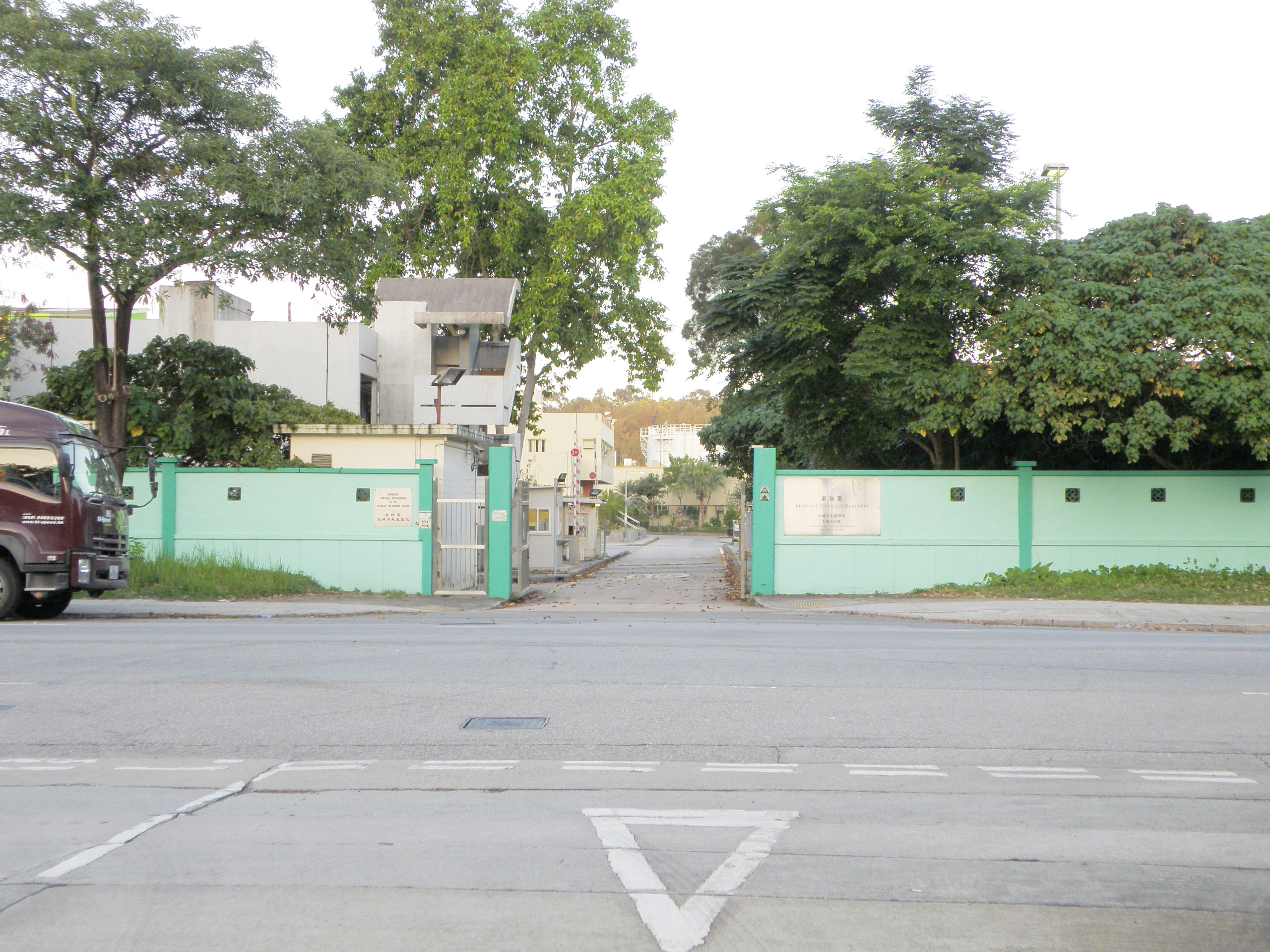 Sewage Treatment Works in Tai Po, Hong Kong.